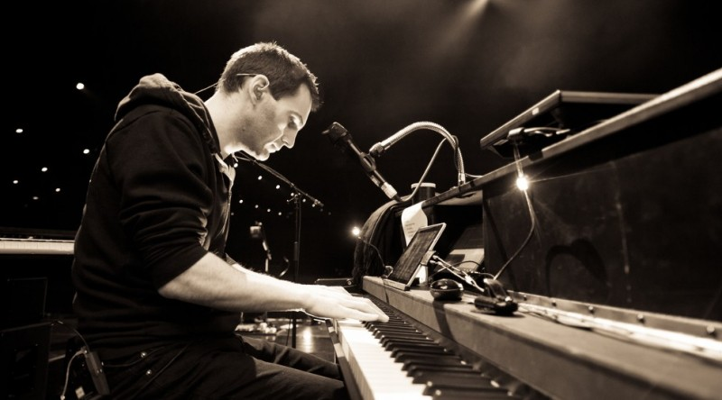 Johnny McDaid From Snow Patrol Play Piano